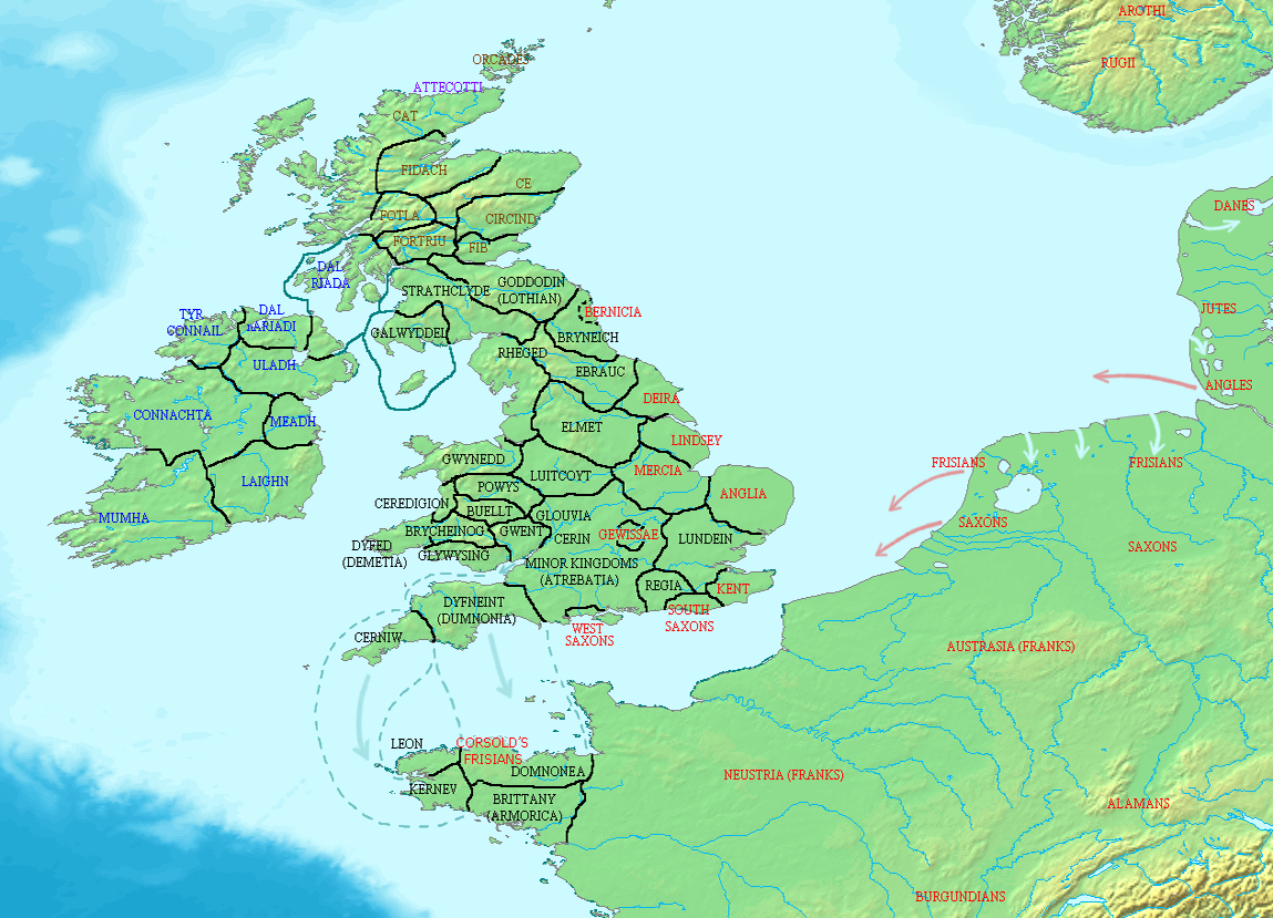 Ireland & Britain, c. AD 500, roughly the period of the legendary King Arthur. Brython kingdoms are labeled in black, Pictish kingdoms in brown, Irish kingdoms in blue, and Germanic polities in red. Based in part upon and on information derived from Mike Ashley's Mammoth Book of Irish & British Kings and Queens, Bruce Gordon's Regnal Chronologies, and other sources.